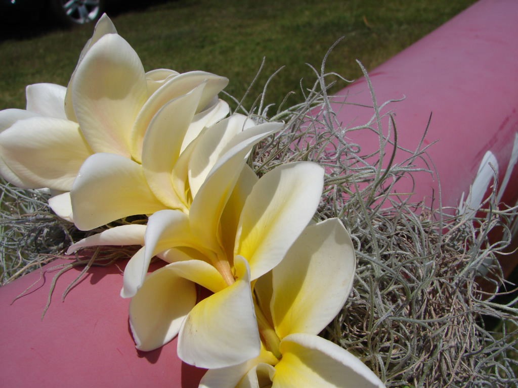 Lei of plumeria and Pele's hair (Spanish moss) on an outrigger canoe at a blessing.